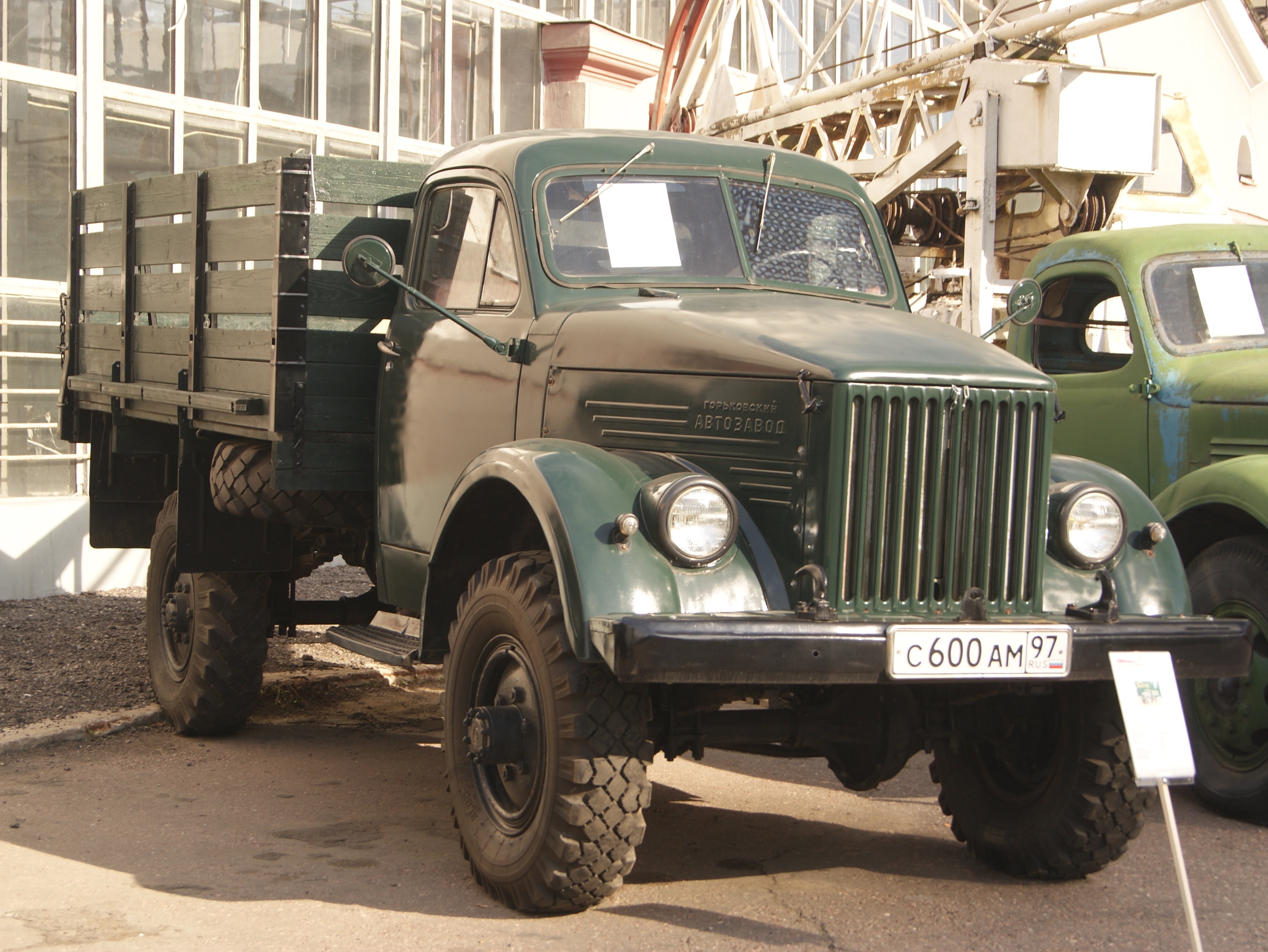 GAZ-63 GAZ-63 truck. A 4WD military version of GAZ-51